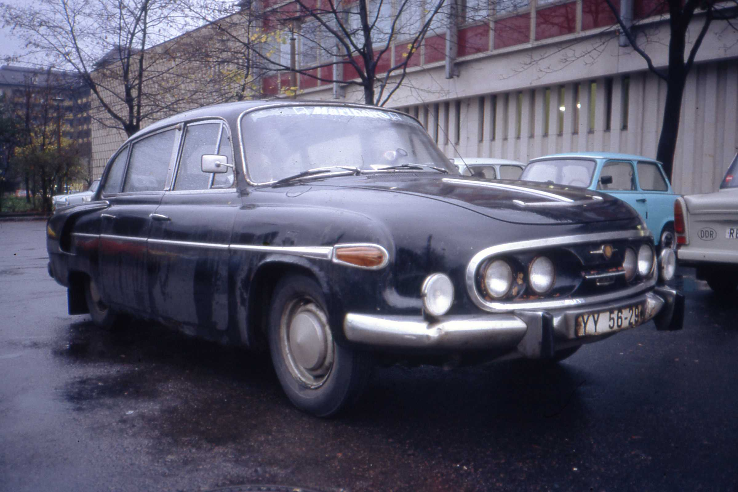 Wonder where this was taken....can't have been very far from the centre. Any ideas? I have forgotten.. The Y on the DDR registration for Dresden Bezirk are of the normal form, rather than the lazy Y which was also frequently encountered. The DDR plated trabbi in the background bears the other Dresden registration letter, R. At the top of the windscreen, a MARLBORO sticker. A bit previous as they say.